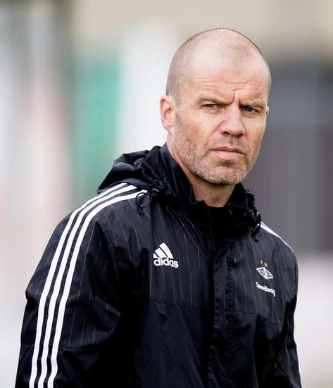 Stig inge bjornebye